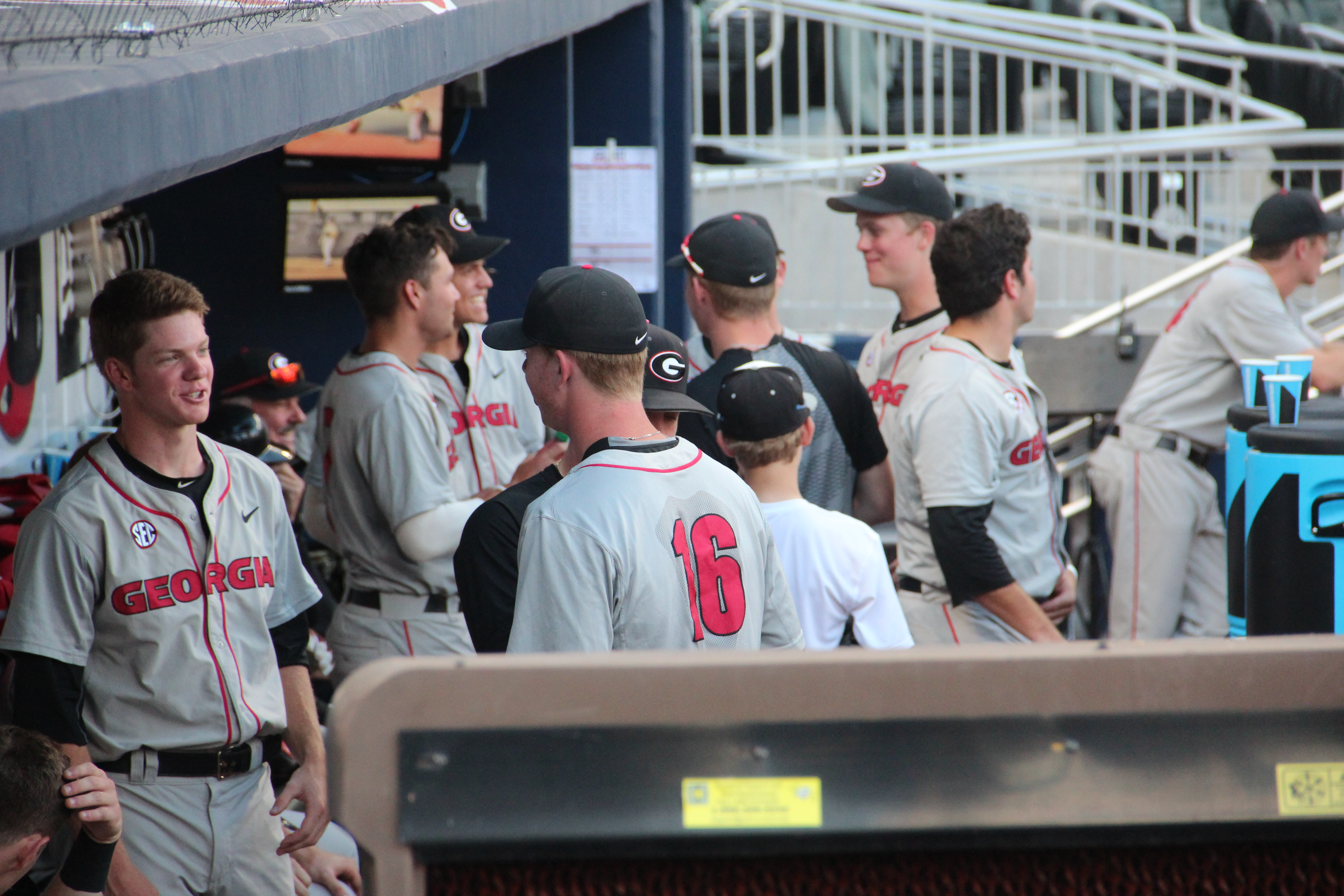 UGA dugout at SunTrust Park